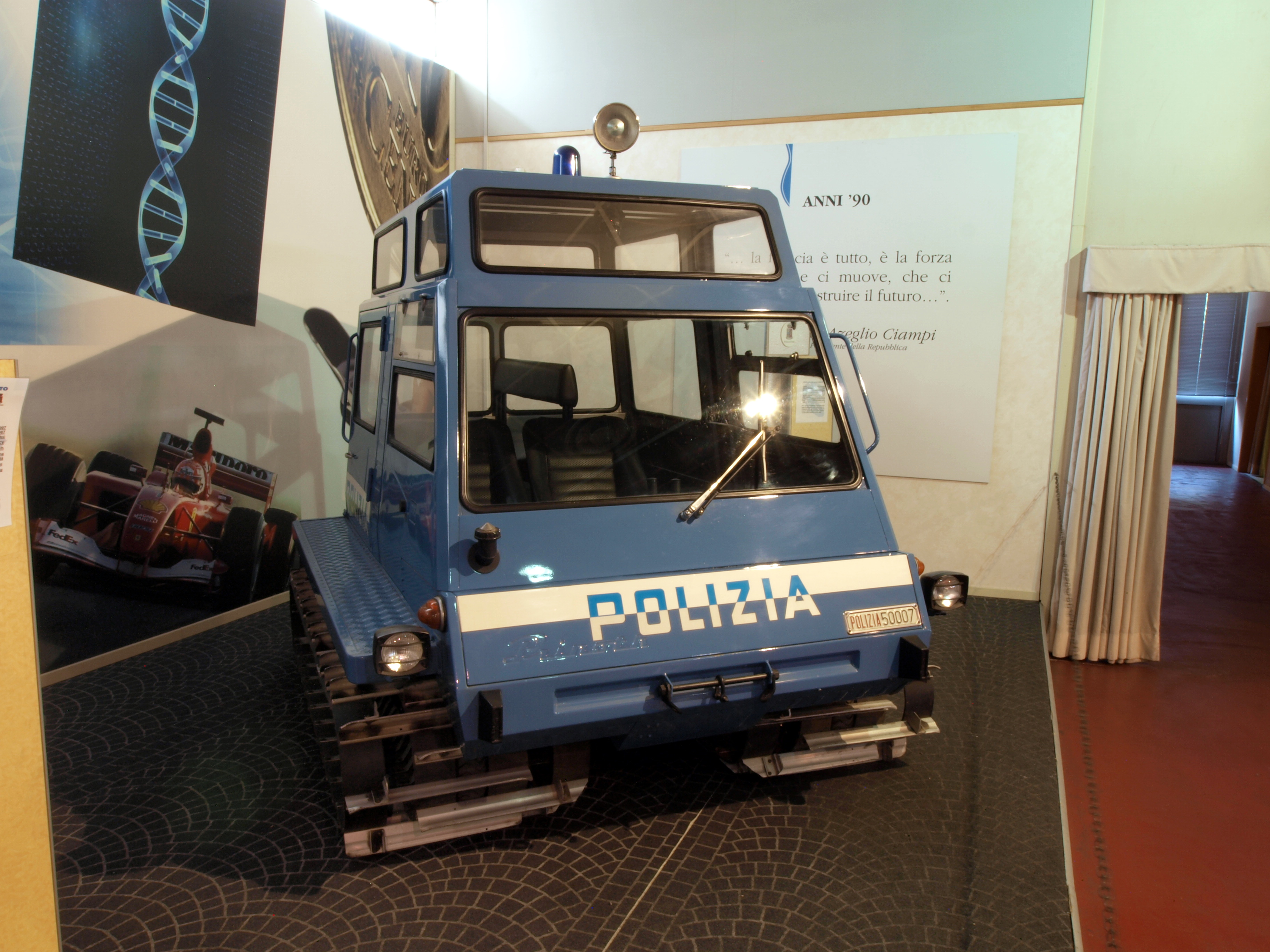 Photographed at Rome, Italy.